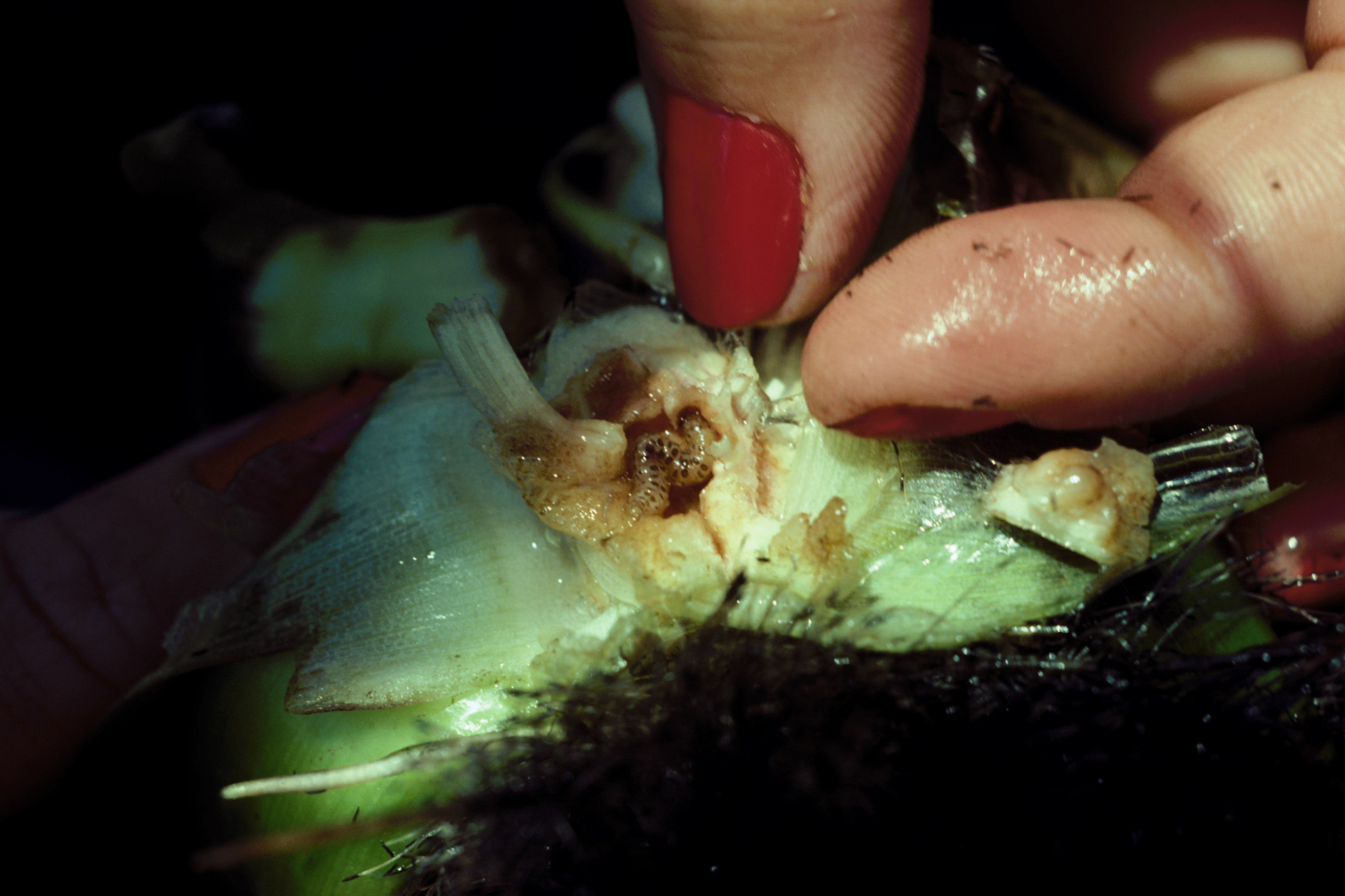 Sameodes albiguttalis larva